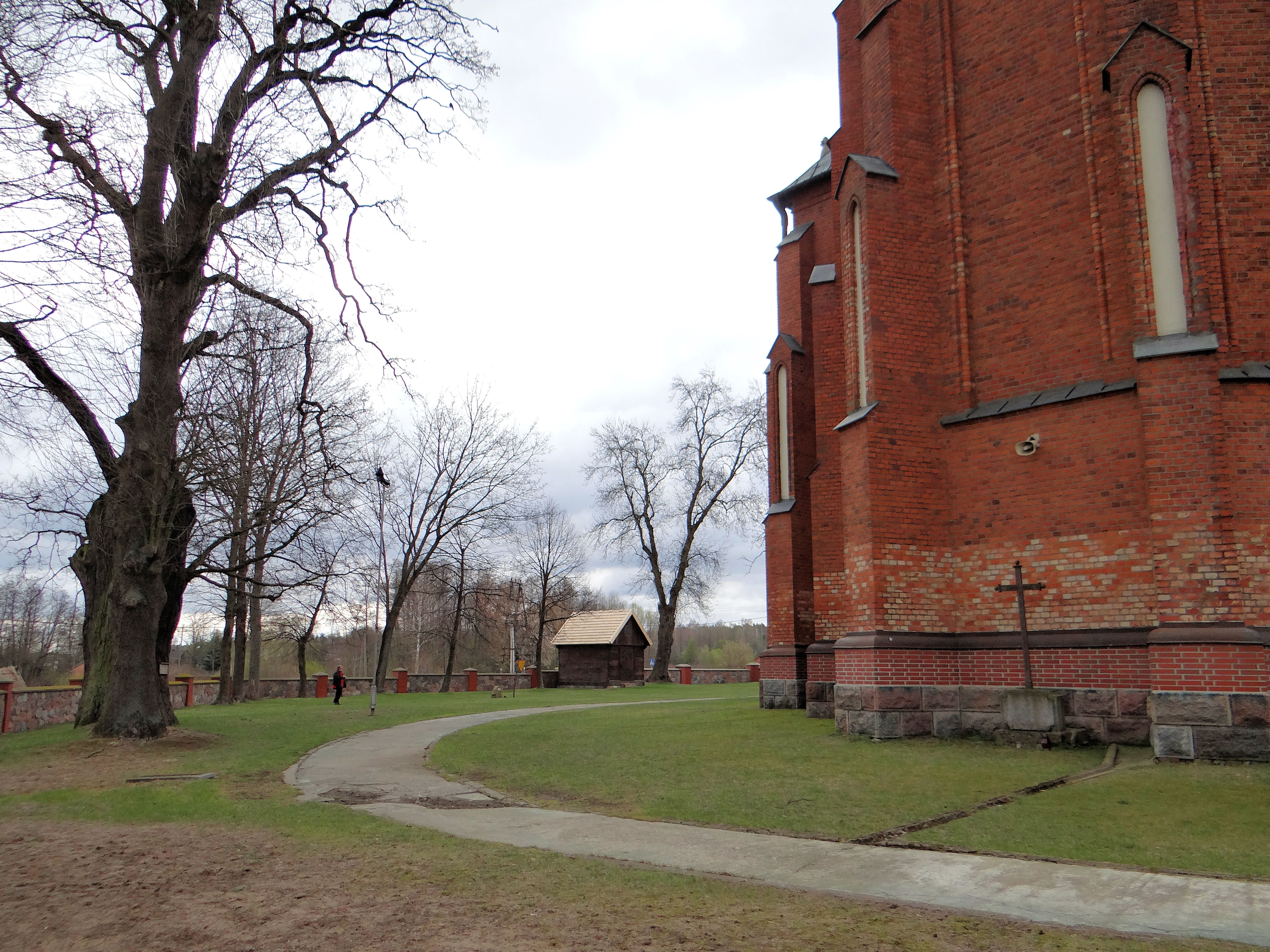 Oak "Jan" monument of nature in Długosiodło This is a photography of protected area with CRFOP ID PL.ZIPOP.1393.PP.1435022.4105